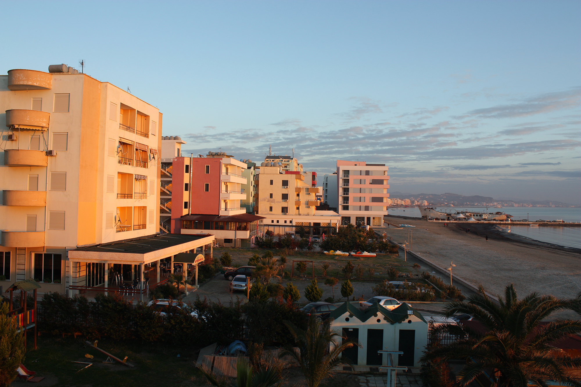 Einter sunrise at Durres beach